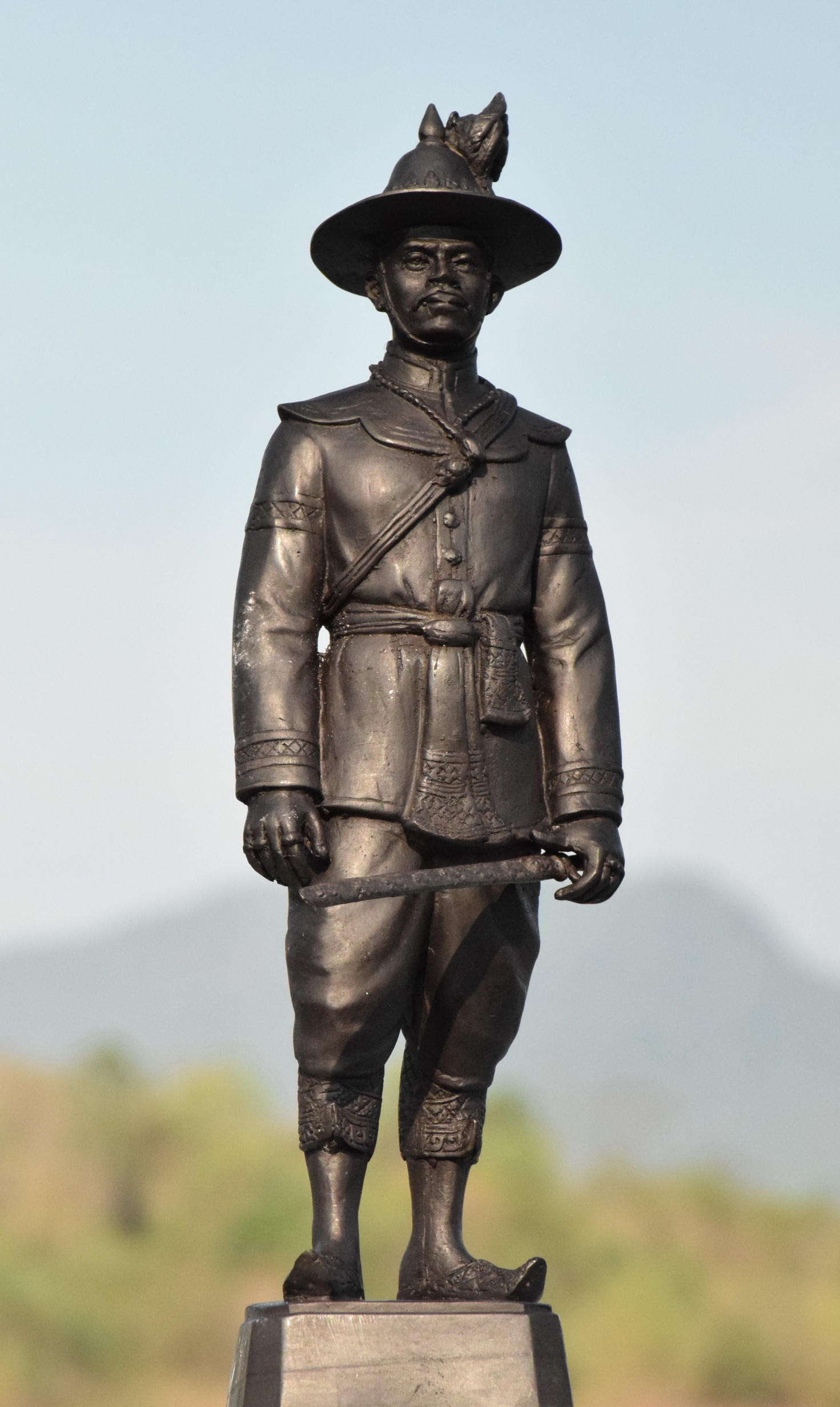 Monument of King Taksin in Wat Kungtapao